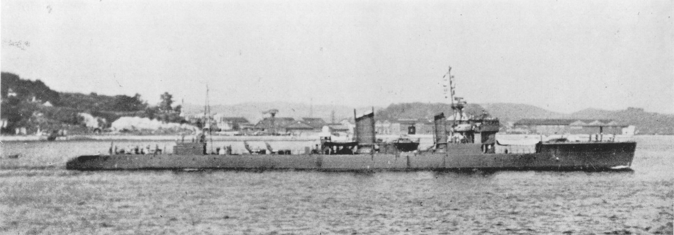 Japanese destroyer Namikaze. leaving Yokosuka for Sasebo, Sept. 1947.